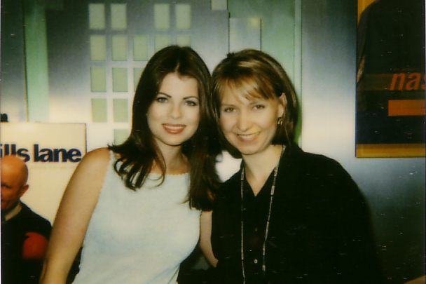 Photograph of Yasmine Bleeth with Joy Cantilo, made CC by request